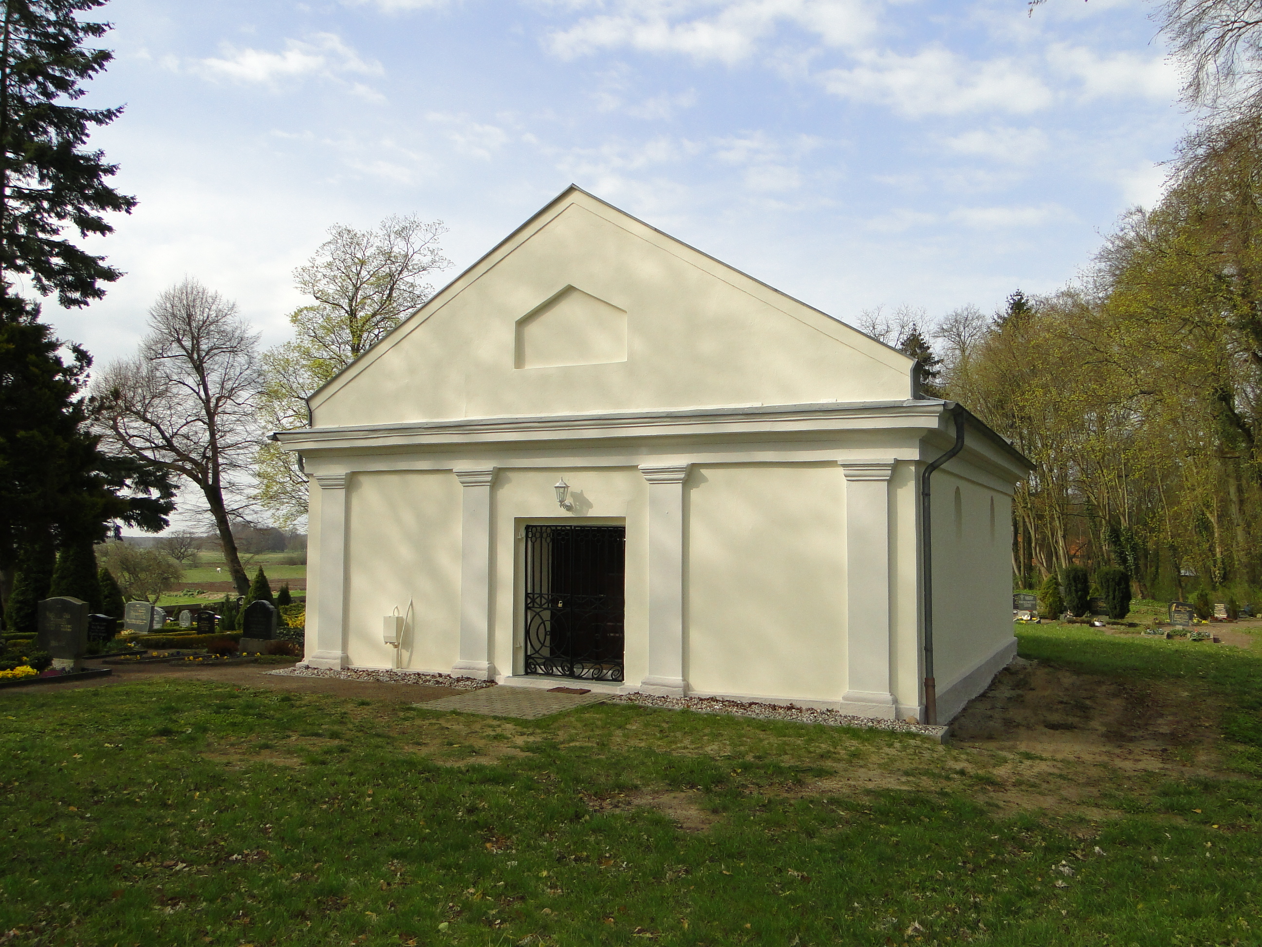 Former mausoleum, today Kleine Kirche (little church) in Fincken, disctrict Müritz, Mecklenburg-Vorpommern, Germany